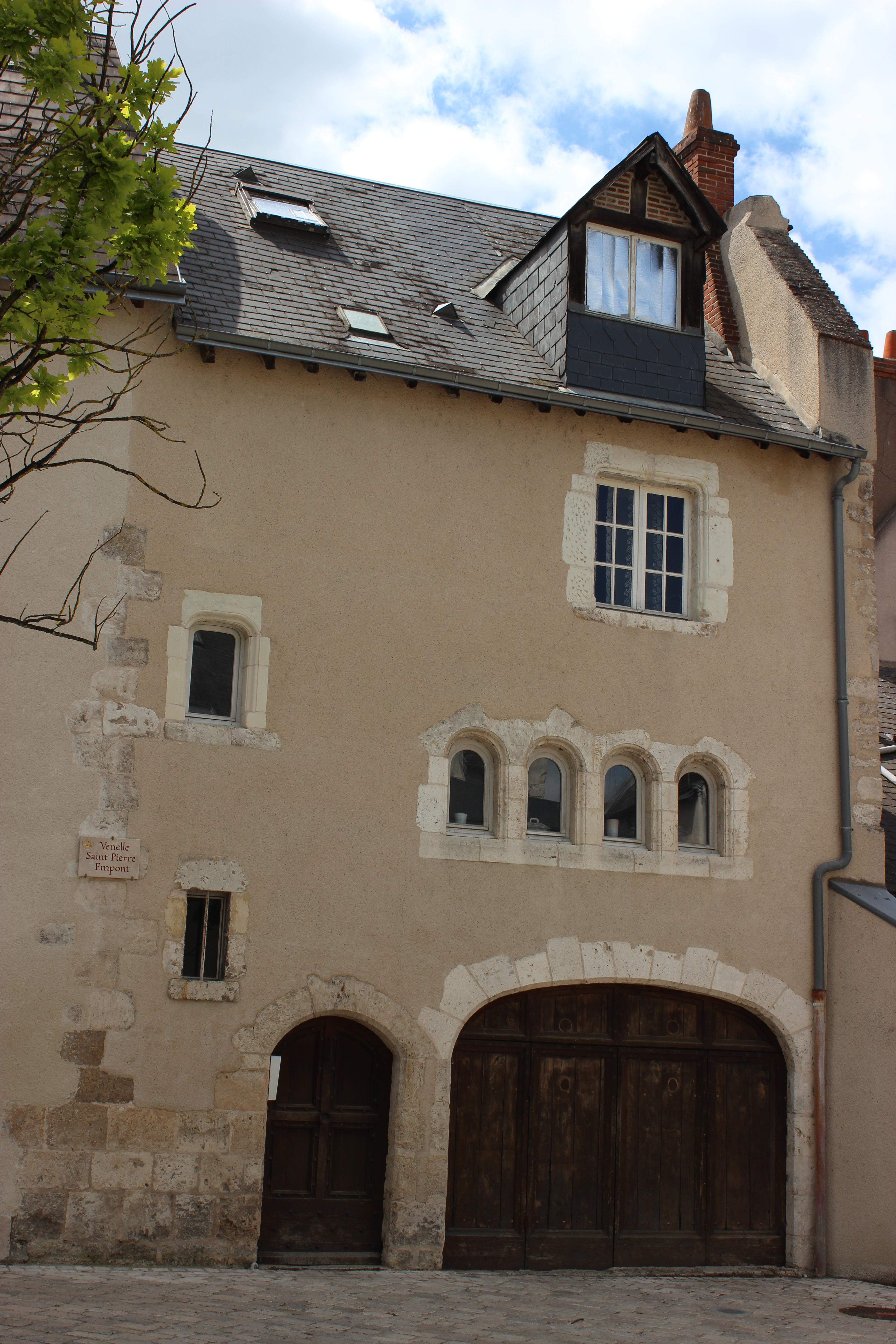 Renaissance house built in 1527